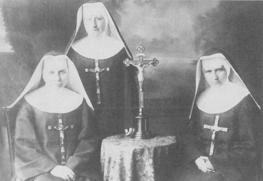 Xavera Rehme (Nun, educator from Germany who worked in Japan, *1889, †1982)